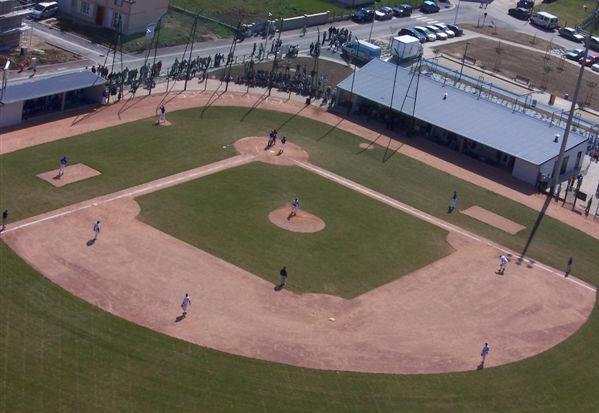 Baseball field of Gellainville, Eure-et-Loir (France). Host: French Cubs de Chartres